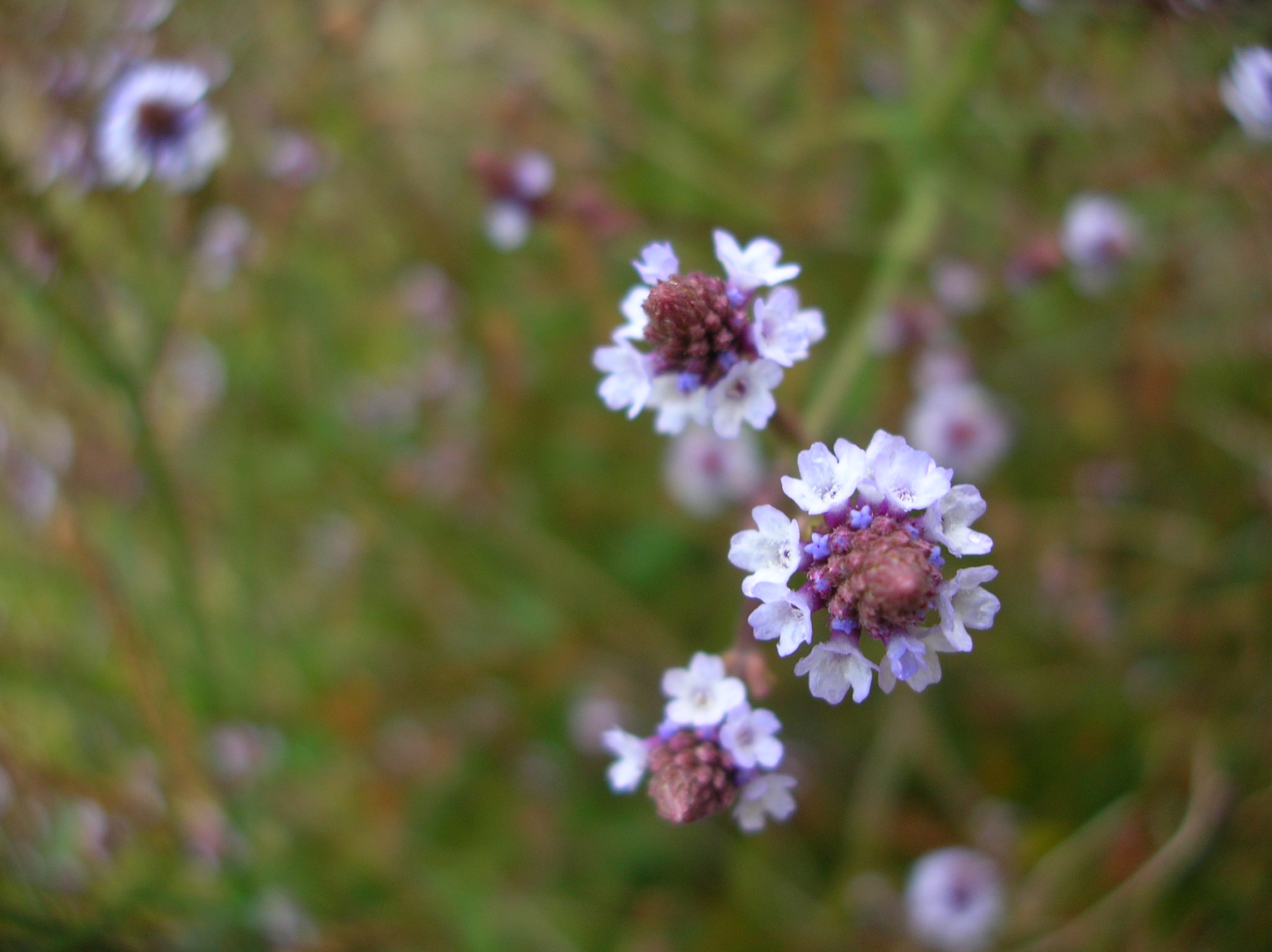 Verbena litoralis (flowers). Location: Maui, Auwahi